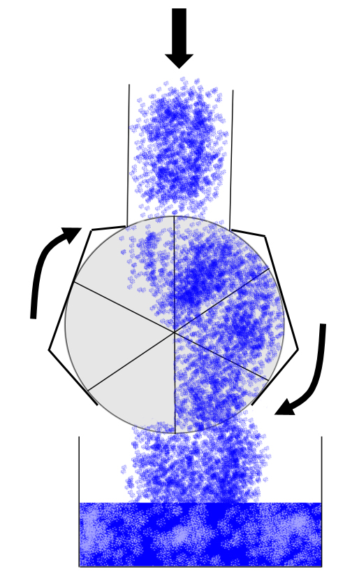 Cellular wheel used in industry to help remove product from a reaction without affecting internal environment